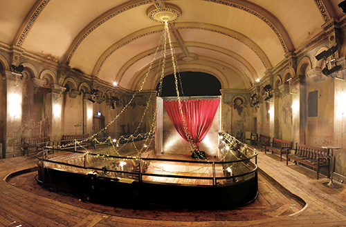 The auditorium of Wilton's Music Hall.